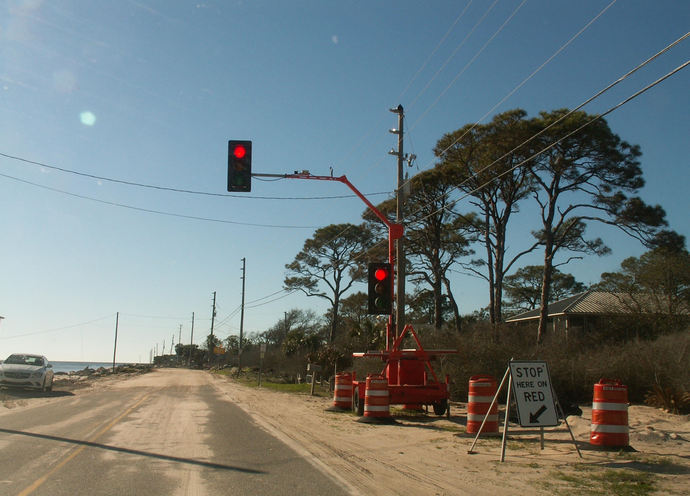 In September 2016, Hurricane Hermine washed out a portion of County Road 370 on Alligator Point in Franklin County, Florida, forcing traffic to be redirected onto local roads. Continuing erosion resulted in a further portion of County Road 370 narrowing to only be safe for one lane of traffic; starting in March 2017 temporary traffic signals were erected to allow only one direction of traffic to proceed at a time. The passage of Hurricane Michael in October 2018 caused further destruction of the roadway, and by January 2019 these signals were still in place as environmental permits and funding for the reconstruction of the roadway were sought; this is the signal at the eastern end of the one-lane segment, on Alligator Drive.